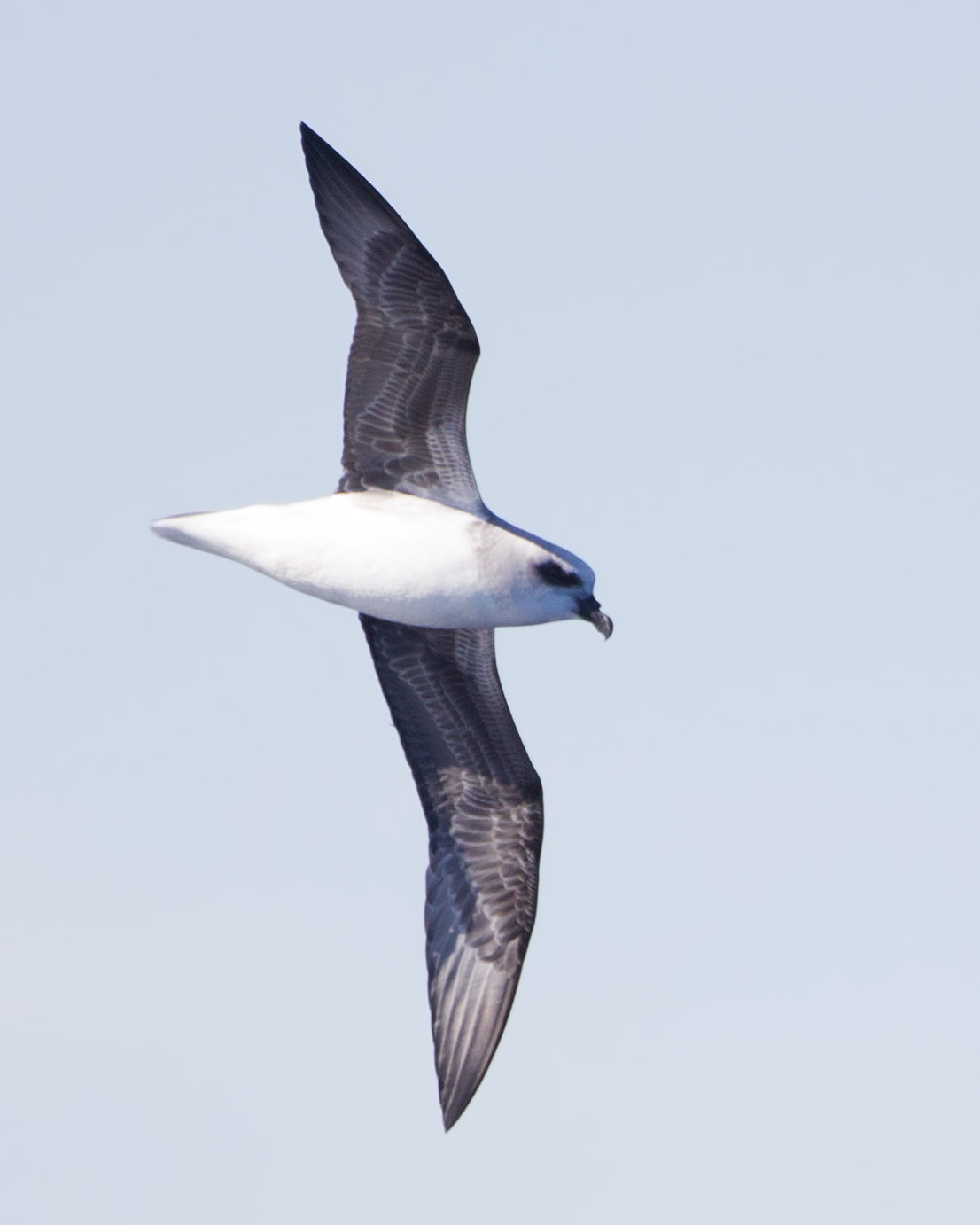 White-headed Petrel (Pterodroma lessonii), East of the Tasman Peninsula, Tasmania, Australia